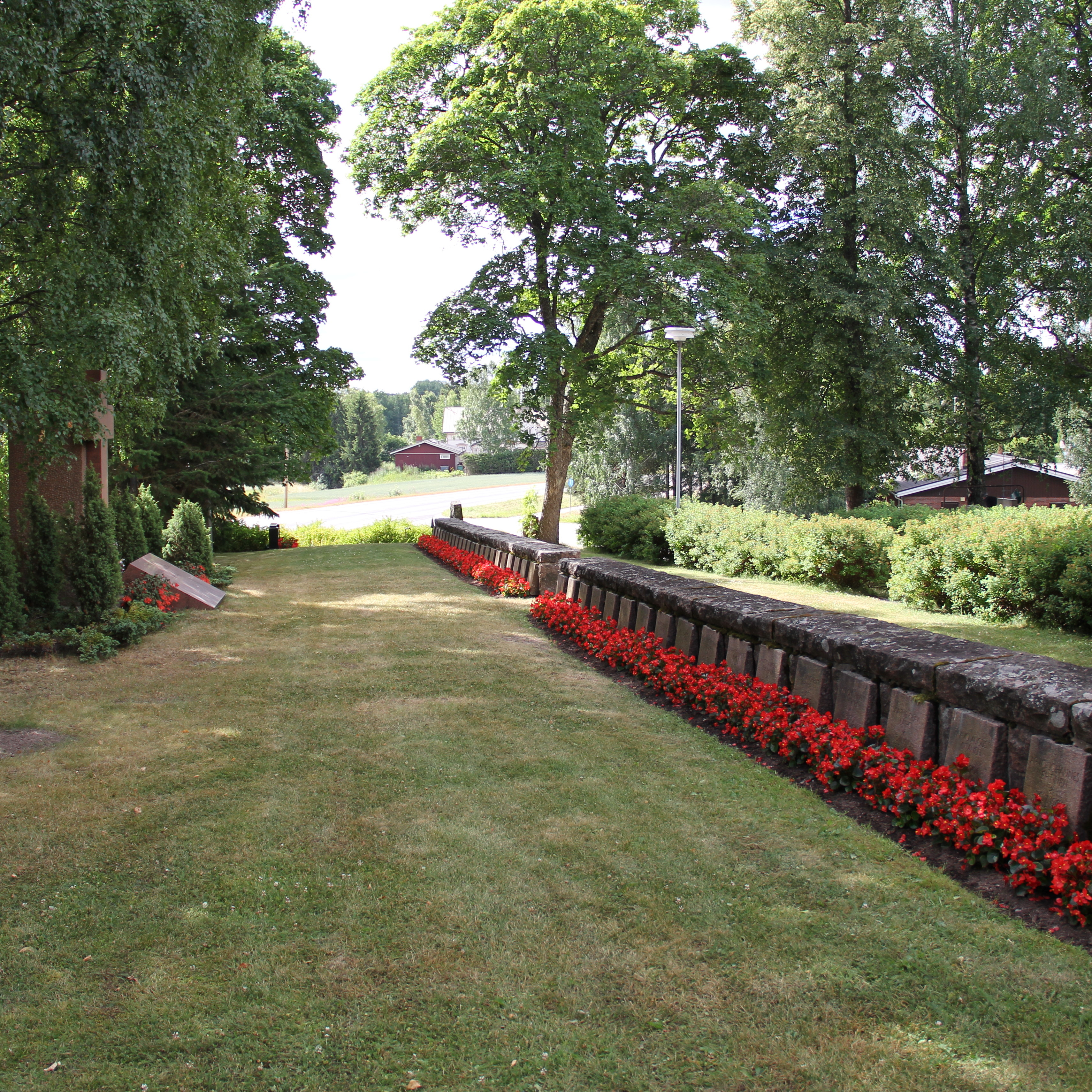 Tarvasjoki churchyard, Tarvasjoki, Finland. Military cemetery.